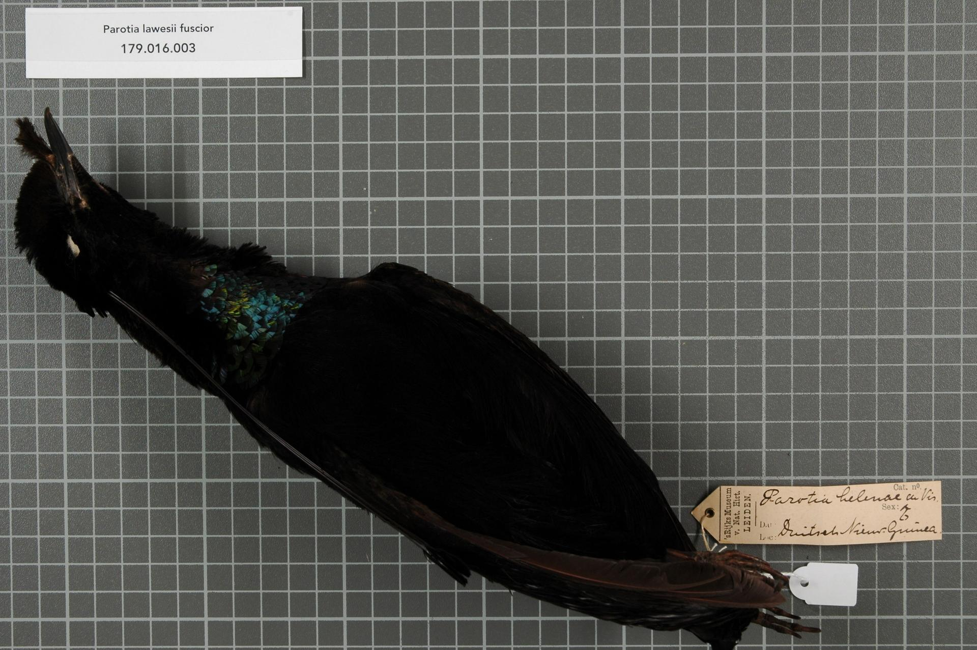 Parotia lawesii fuscior Greenway, 1934